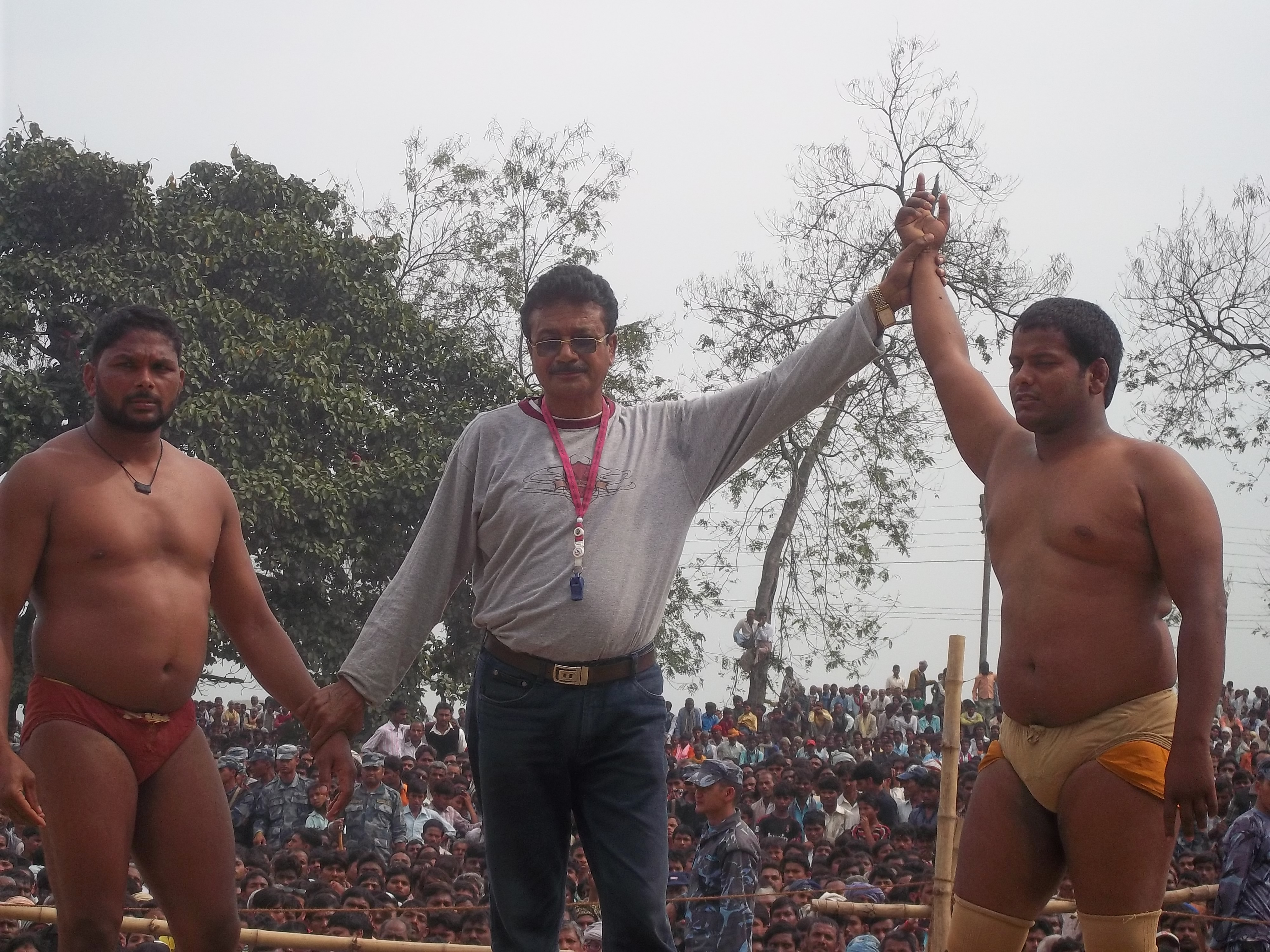 Kusti competition held on 24 February 2013, in Nepal.